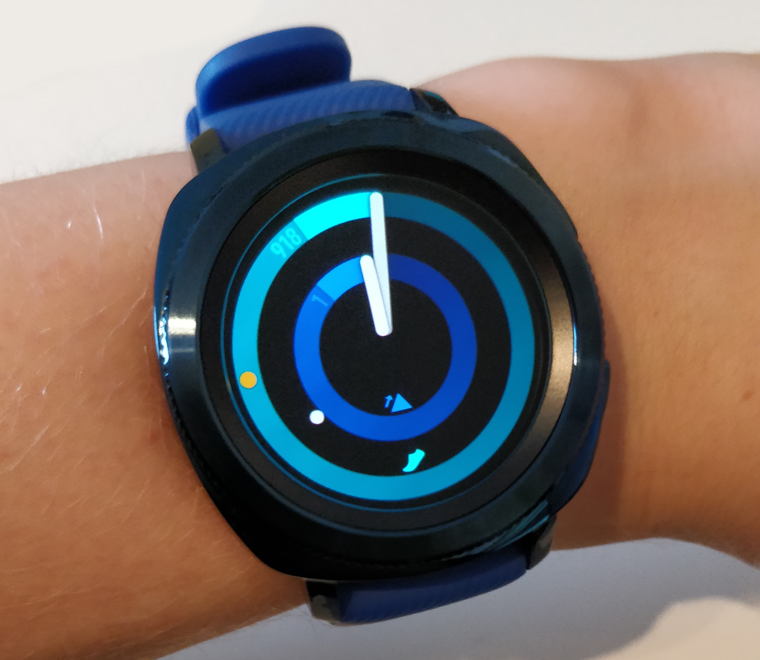 Samsung Gear Sport on wrist with default watchface.